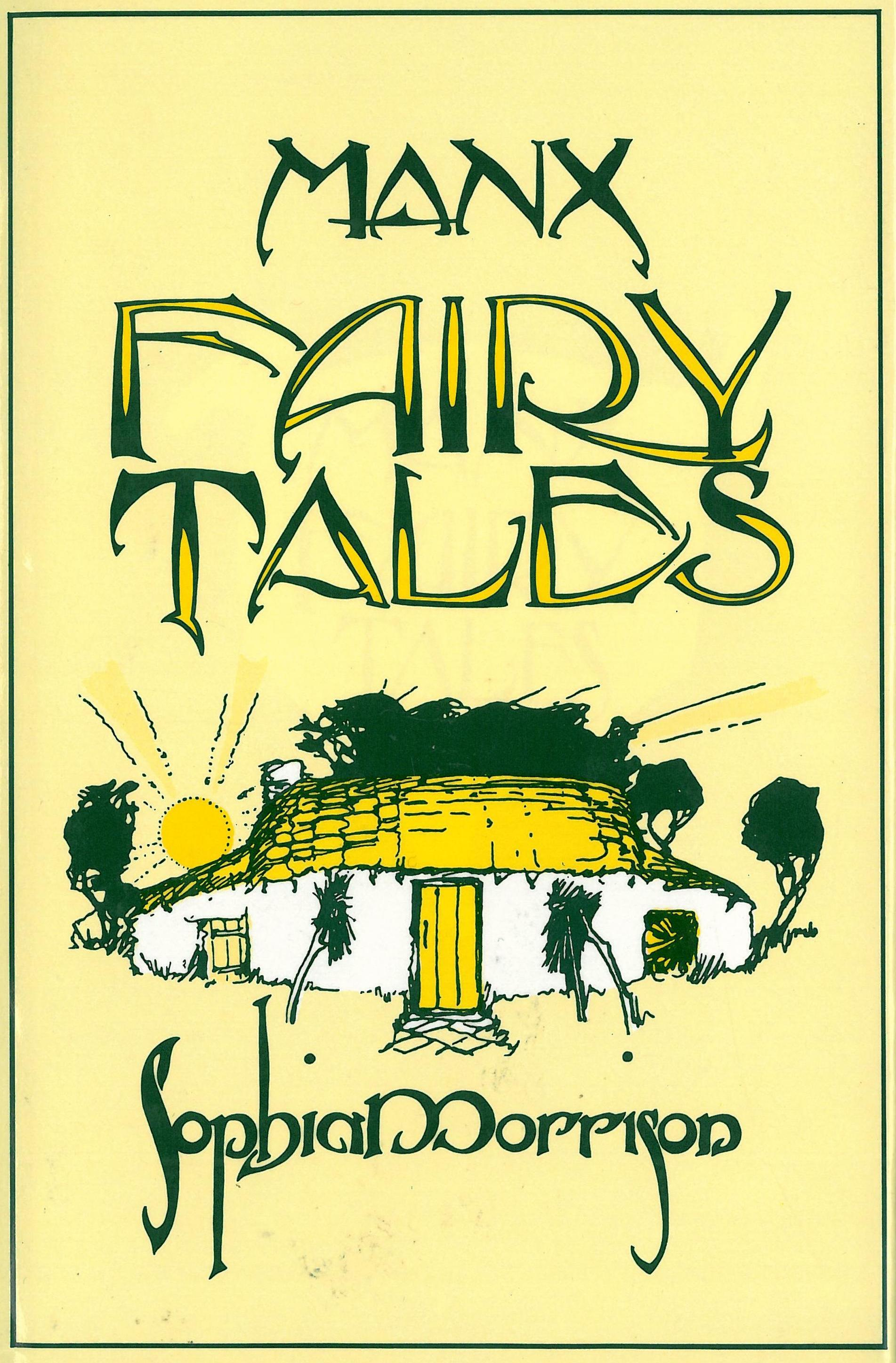 'Manx Fairy Tales' by Sophia Morrison, originally published in 1911. The second edition of 1929 included illustrations by Archibald Knox, seen here in the 1998 reprint.